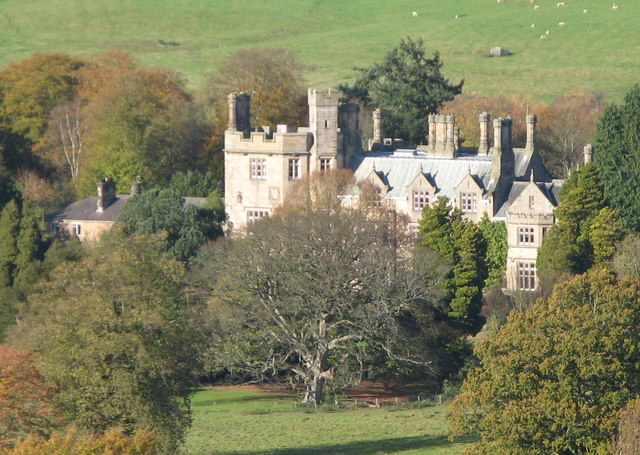 Ridley Hall Taken from near Morralee Tarn in NY8063.